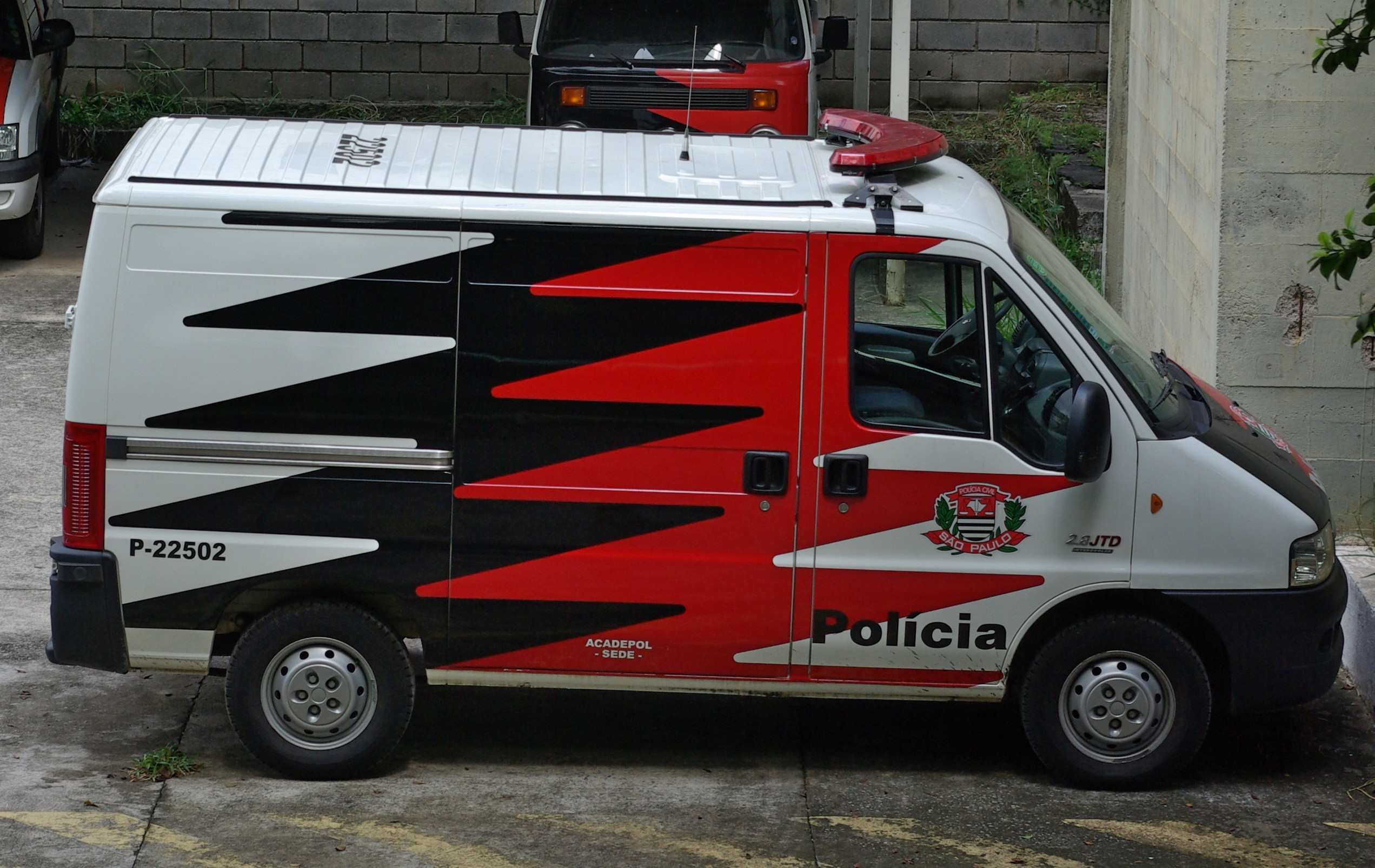 Civil police station wagon